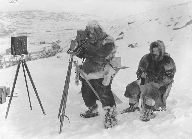 Norwegian professor Carl Størmer and his assistant Bernt Johannes Birkeland photographing the Aurora Borealis in Alta, Norway.